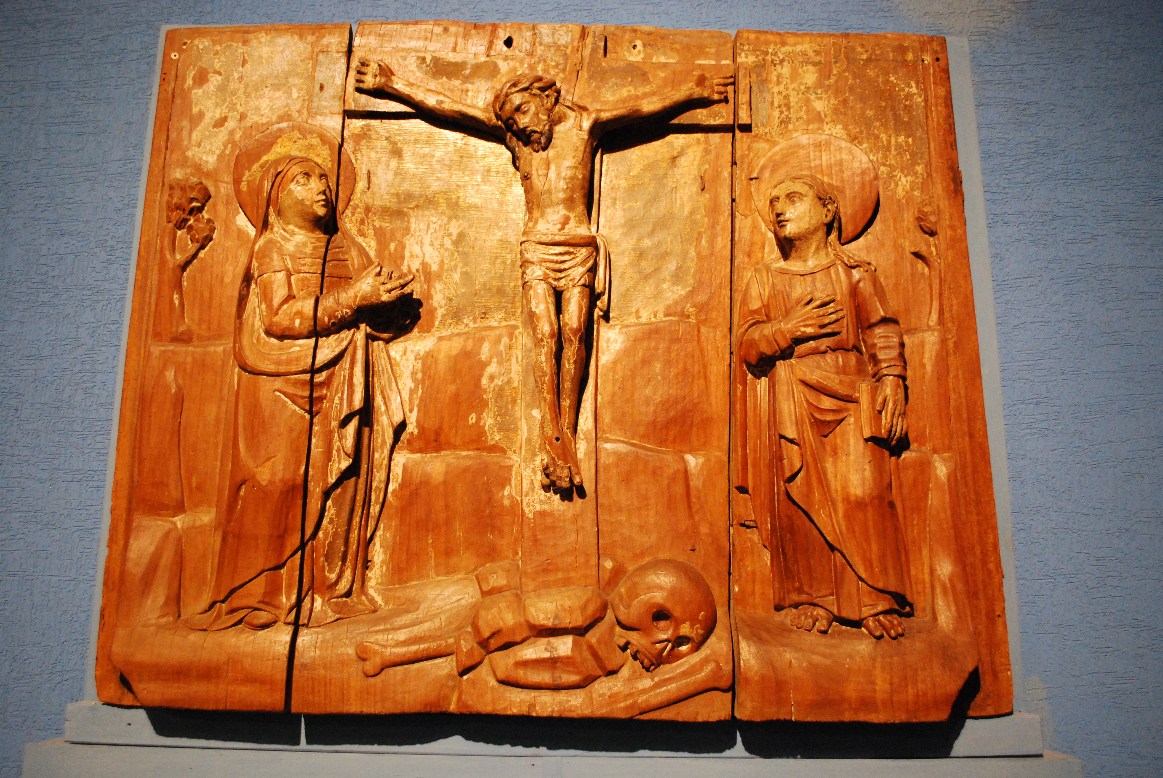 Portion of the original main altar of the Santo Domingo Church in Chiapa de Corzo. On display at the Regional Museum in Tuxtla Gutierrez, Chiapas, Mexico